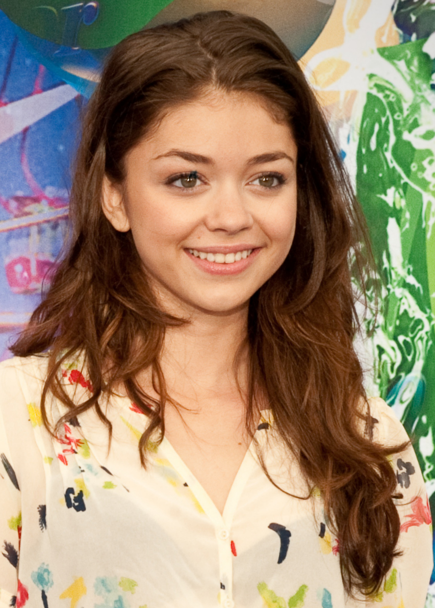 Sarah Hyland at the World of Color Premiere - Disney California Adventure 2010.